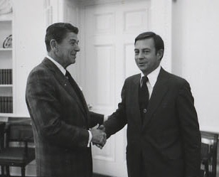 Ronald Reagan greets Langhorne Motley, Ambassador to Brazil